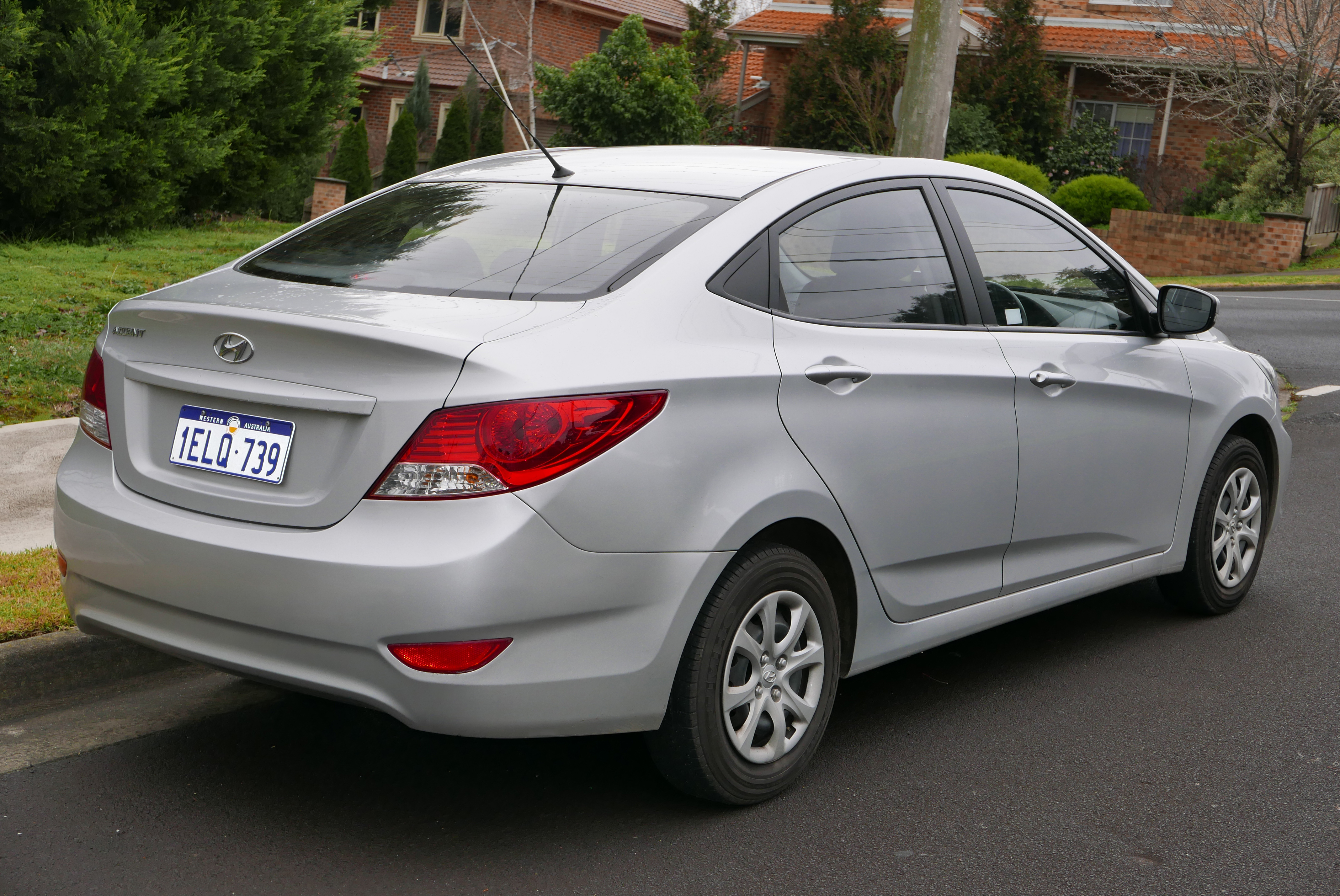 2014 Hyundai Accent (RB2 MY14) Active sedan. Photographed in Doncaster, Victoria, Australia.